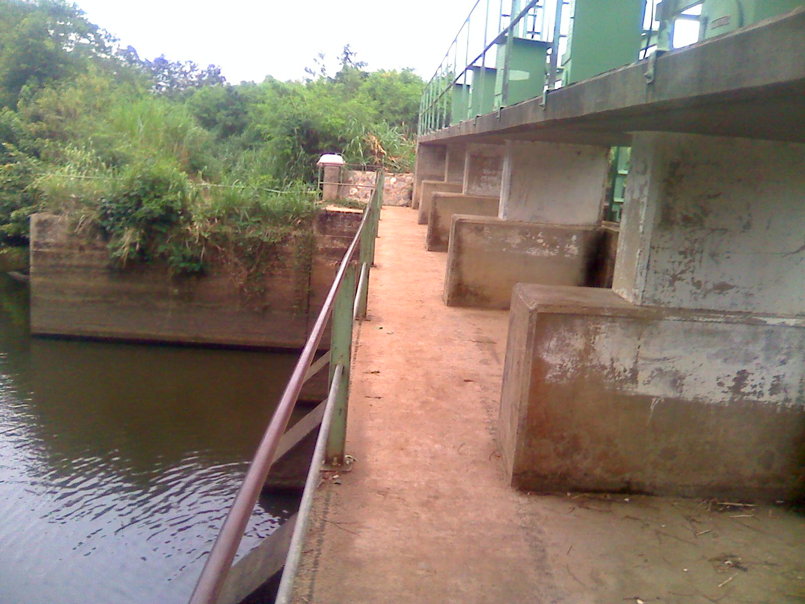 The Densu River dam built over 40 years ago. Water from this dam was pumped to a treatment plant located, in Ada, near Koforidua.